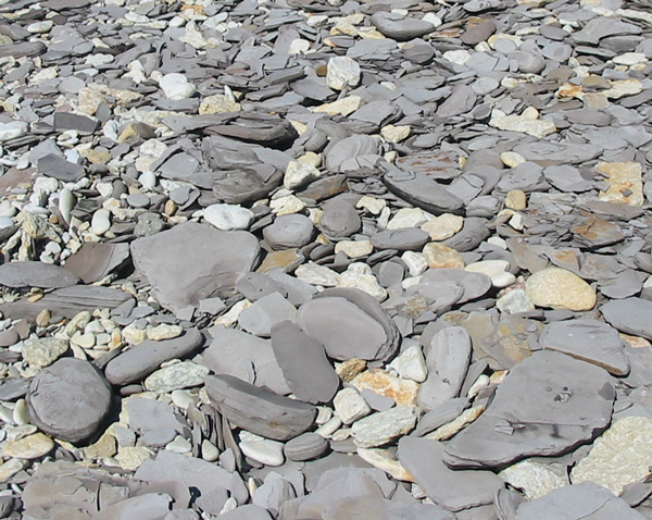 Greyish chunks of graptolitic argillite in front of Pakri Cliff on Pakri Peninsula, Estonia, yellowish and white chunks are limestone.